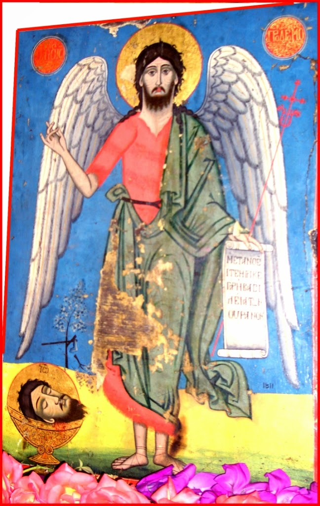 Saint John the Baptist Icon in Ieropigi (Kosinets) Church.